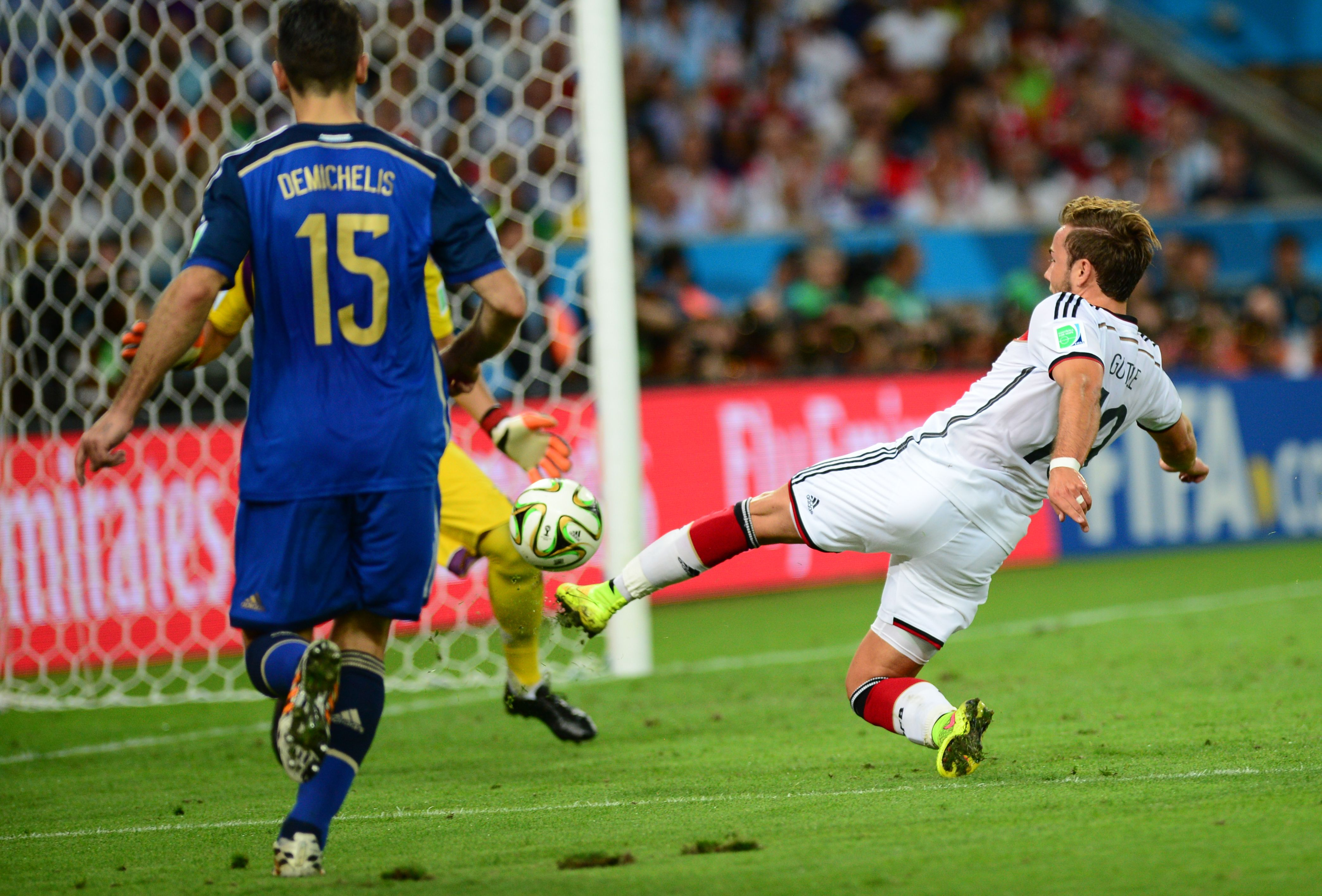 Götze scores against Argentina. Photo: Marcello Casal Jr/Agência Brasil CCBY3.0